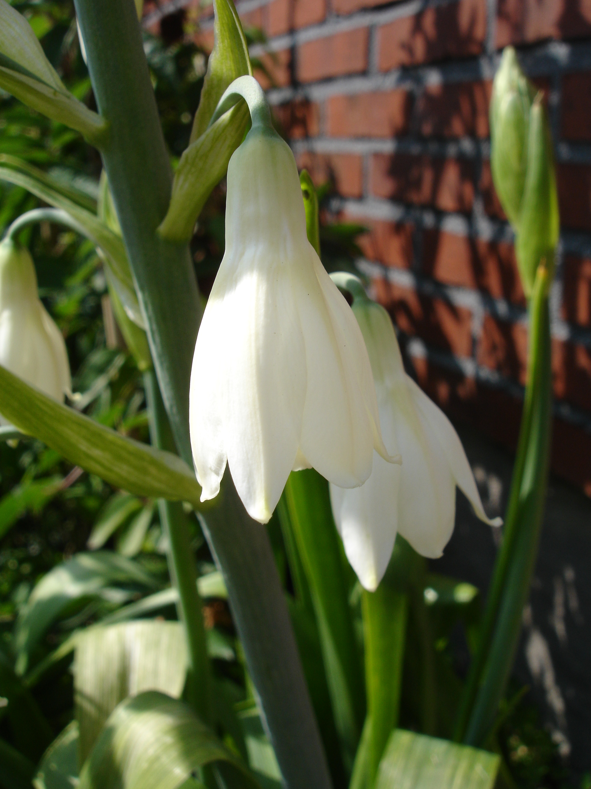 Ornithoglaum candicans